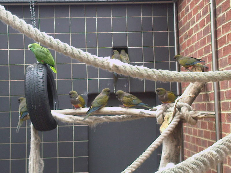 Eight Burrowing Parrots (Cyanoliseus patagonus) and one yellow-naped amazon or yellow-naped parrot (Amazona auropalliata) at Leeds Castle, England. The Amazon parrot is standing on top of the tyre.